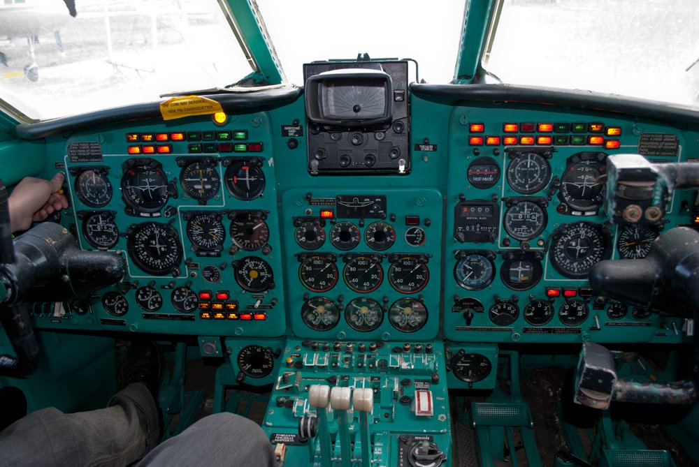 HA-YLR Yak-40 light check